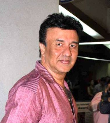 Indian music director Anu Malik